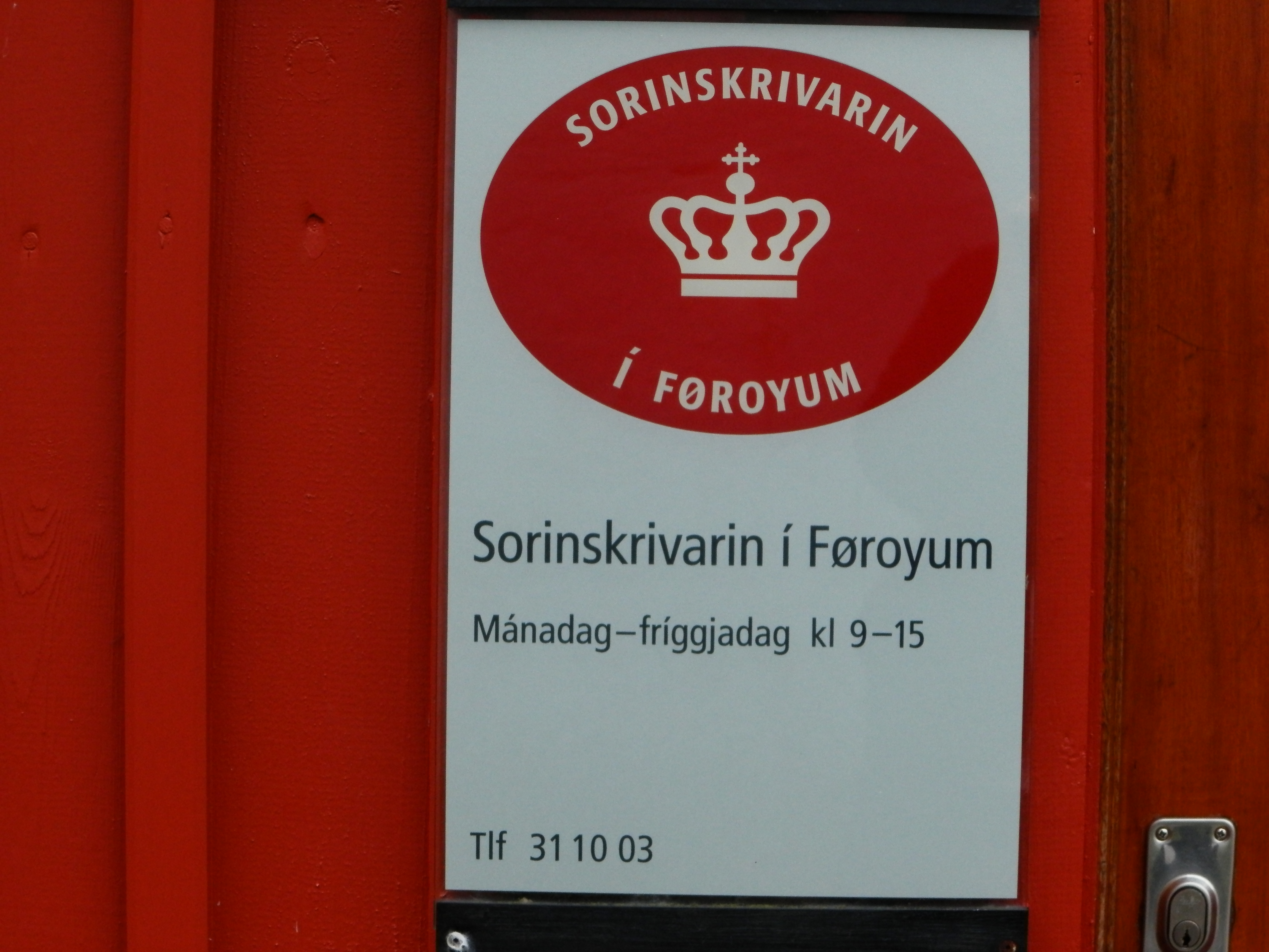 The Court of the Faroe Islands. Sorinskrivarin. C. Pløyensgøta 1, Tórshavn.